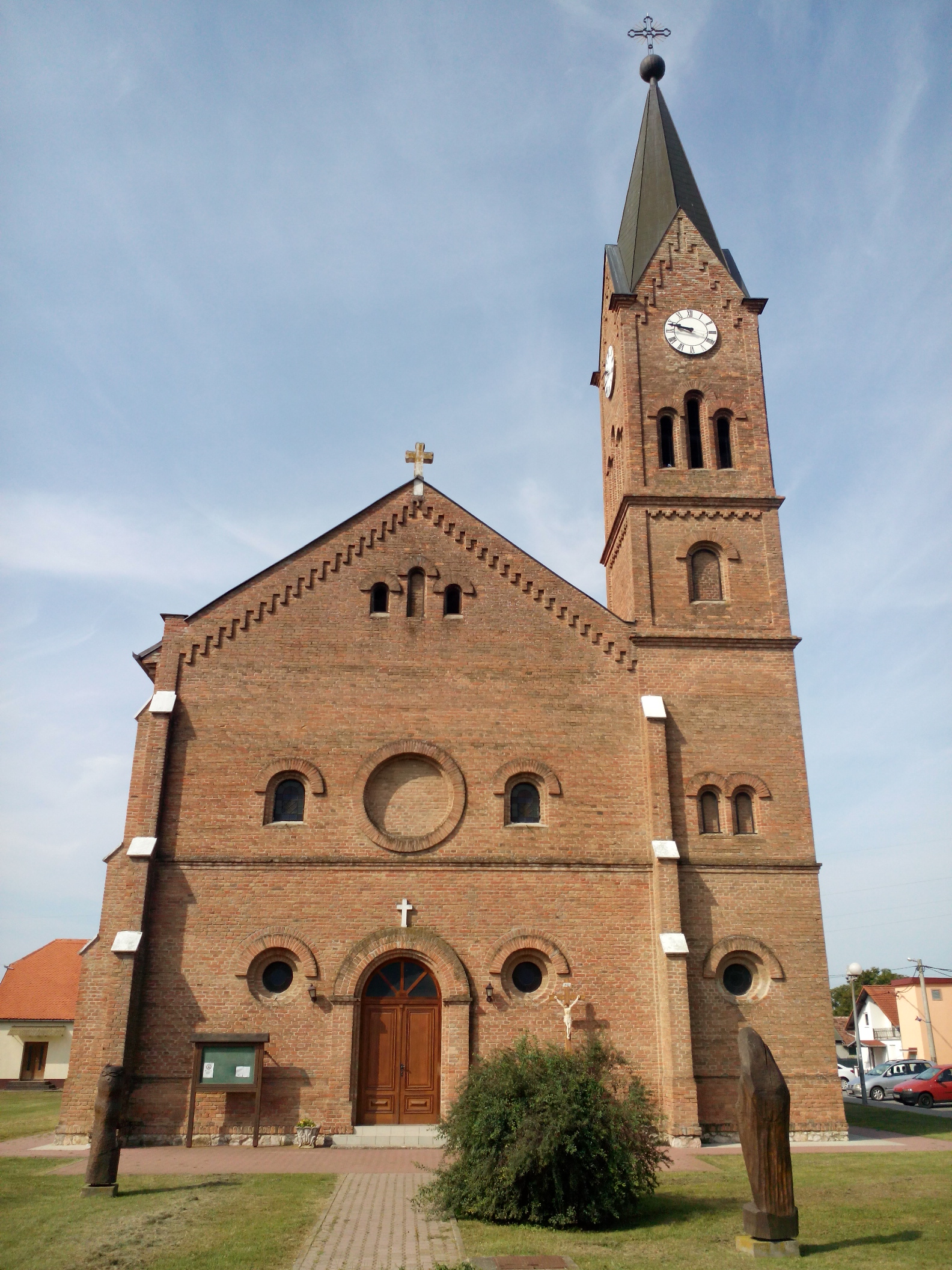 Sacred Heart of Jesus Parish Church, Čeminac.